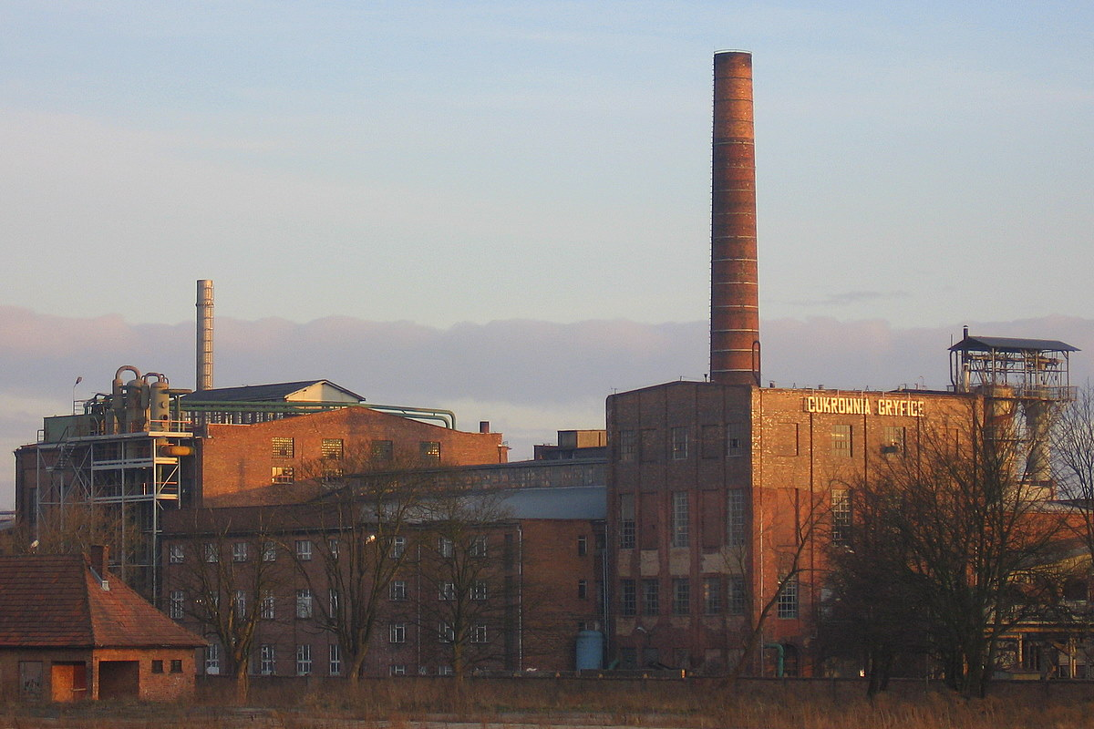 Sugar factory in Gryfice, Poland